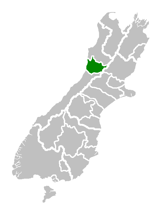 Location of Grey District, New Zealand